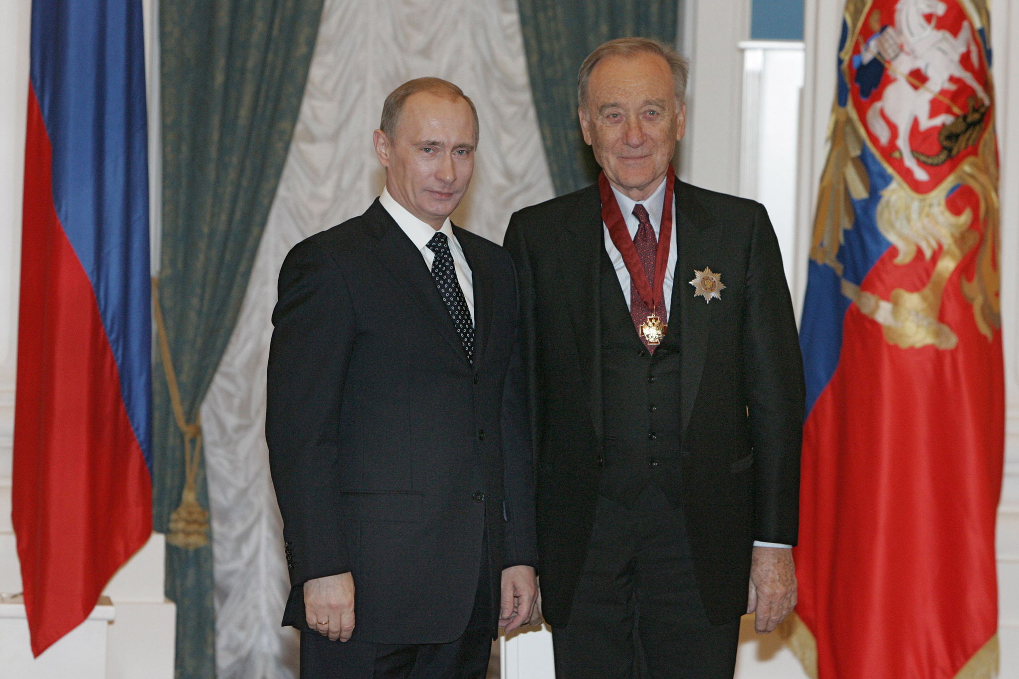 THE KREMLIN, MOSCOW. Ceremony for the presentation of state awards. The composer Rodion Shchedrin receives the order For Services to the Fatherland II degree.